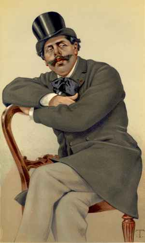 Caricature of M PG de Cassagnac. Caption read "a French duellist".